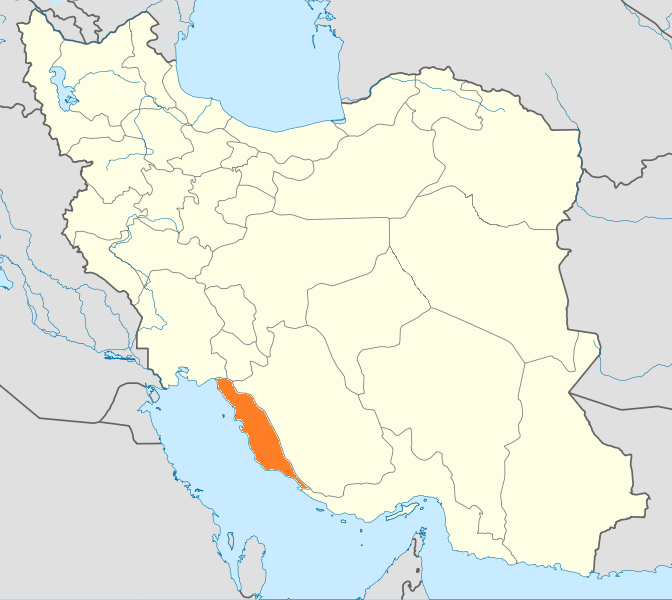 Locator map of Iran